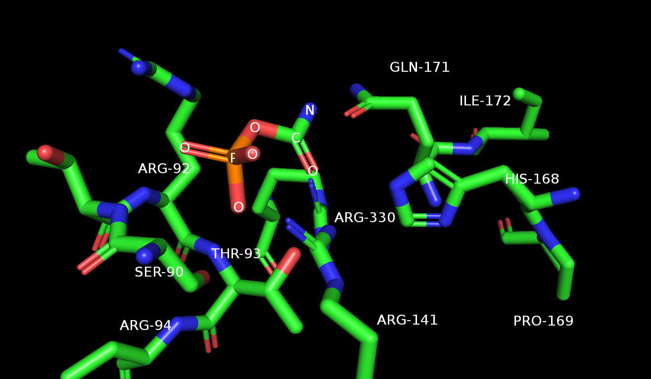 Binding Site of Carbamoly Phosphate in Ornithine Transcarbamylase. Carbamoyl Phosphate is shown.